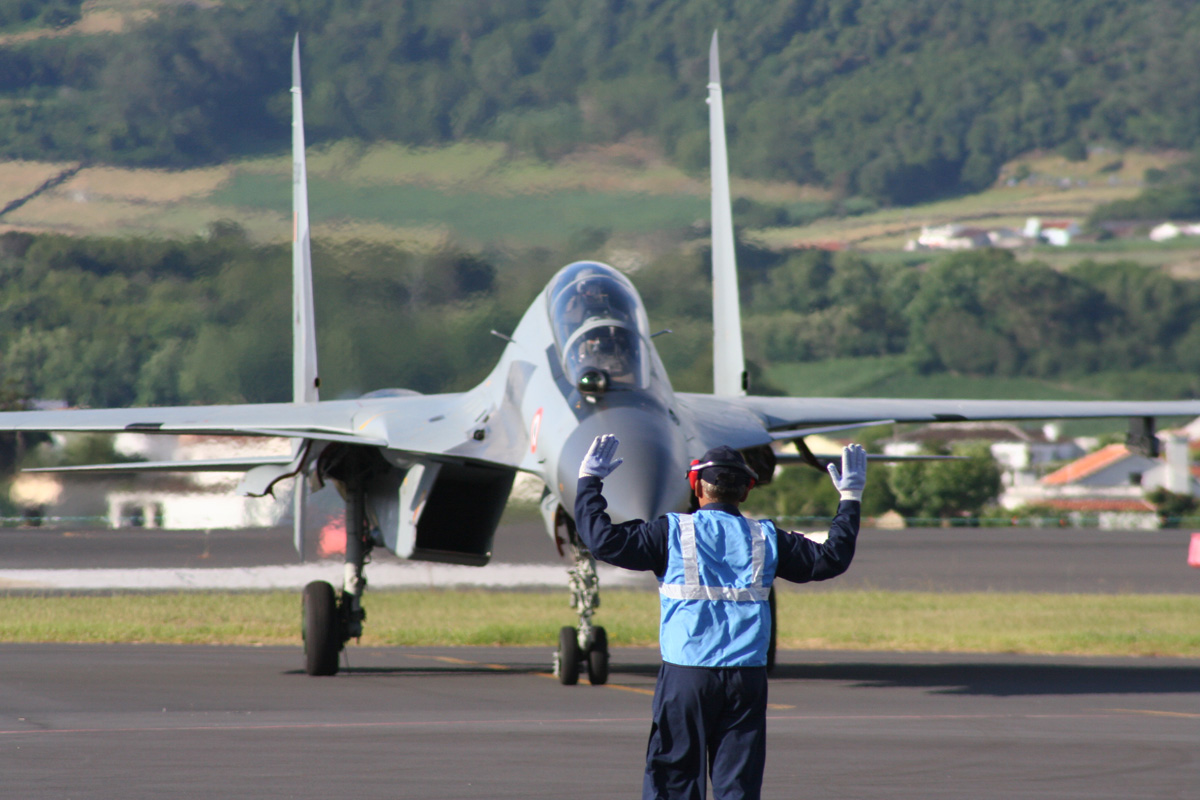 Members of the Indian air force, flying the Sukhoi Su-30 MKI, landed at Lajes Field, July 13. The team is on their way to participate in Red Flag at Nellis Air Force Base, Nev. It is the first time the Indian air force has ever participated at Red Flag. (Photo by 1st Lt. George